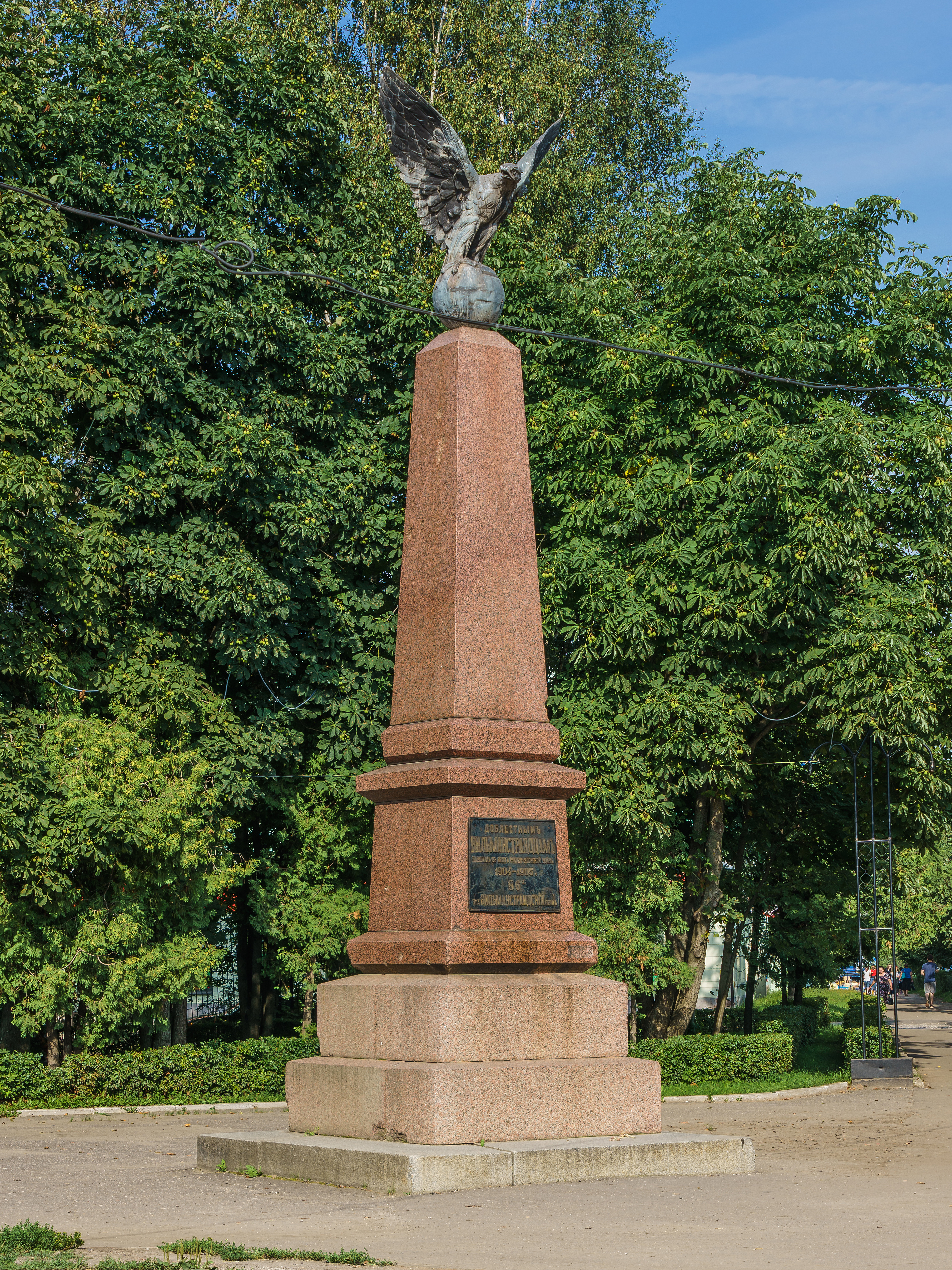 Eagle Monument in Staraya Russa, Novgorod Oblast, Russia